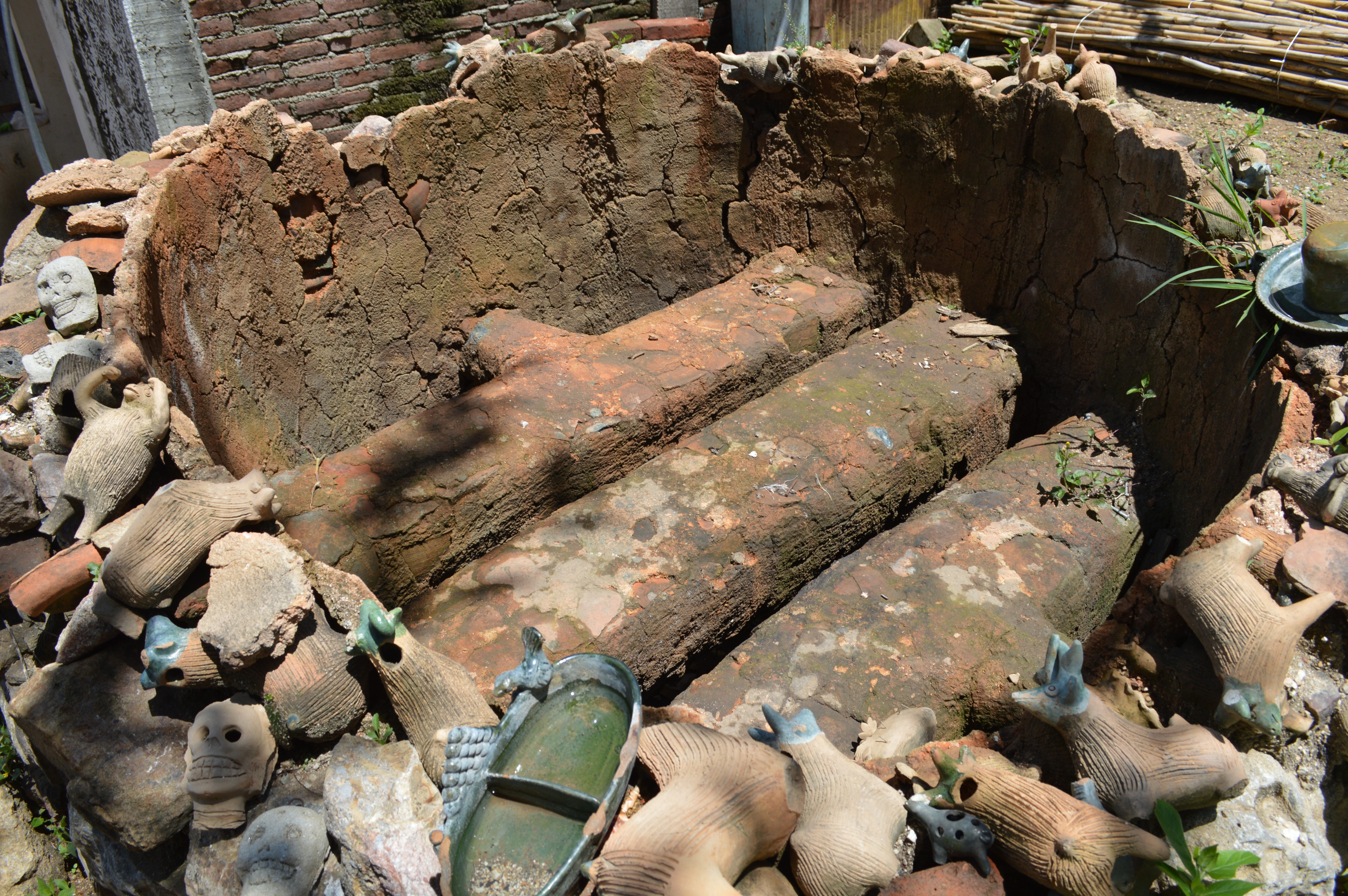 Inside the kiln used by Teodora Blanco at the Blanco family compound in Santa Maria Atzompa, Oaxaca, Mexico